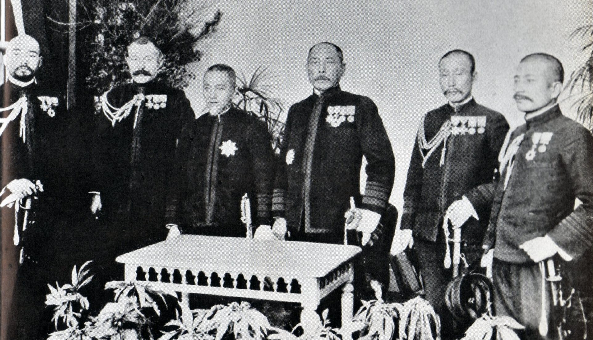 Commander of Combined Fleet at Russo-Japanese War